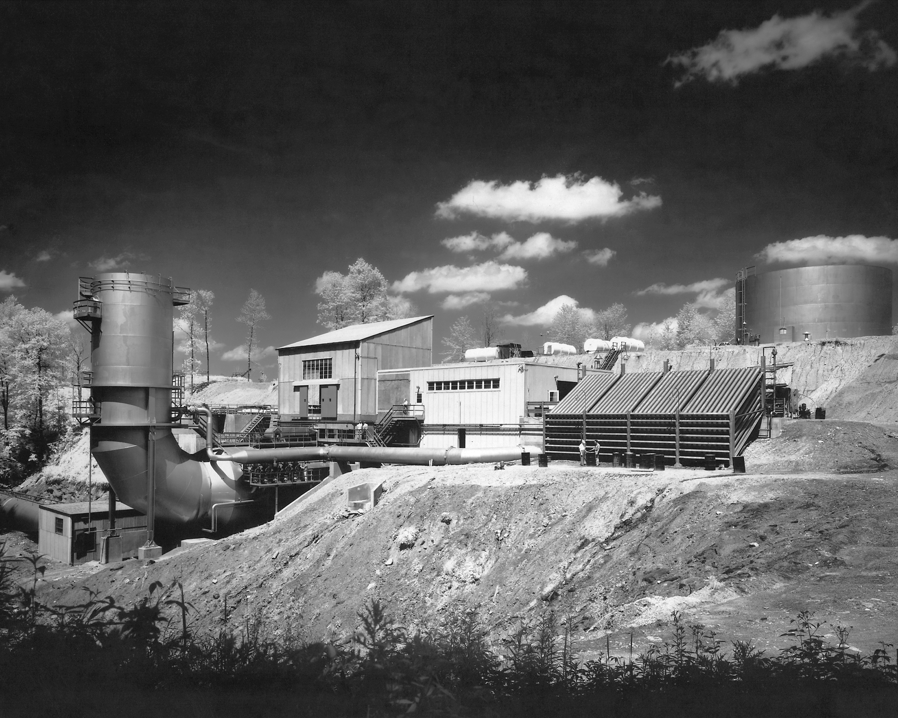 New Rocket Lab Facility of South 40 Rocket Facility in 1957 — at the Rocket Engine Test Facility (RETF). Formerly a rocket tests site, part of the Lewis Flight Propulsion Laboratory, renamed the Lewis Research Center in 1958, and the present day Glenn Research Center. It was demolished in 2003, removed as a National Historic Landmark and delisted from the National Register of Historic Places, for the runway expansion of the Cleveland Hopkins International Airport.